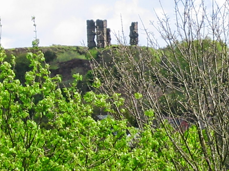 Morris Castle or Craig Castle, Treboeth, Swansea taken from Llangyfelach Road